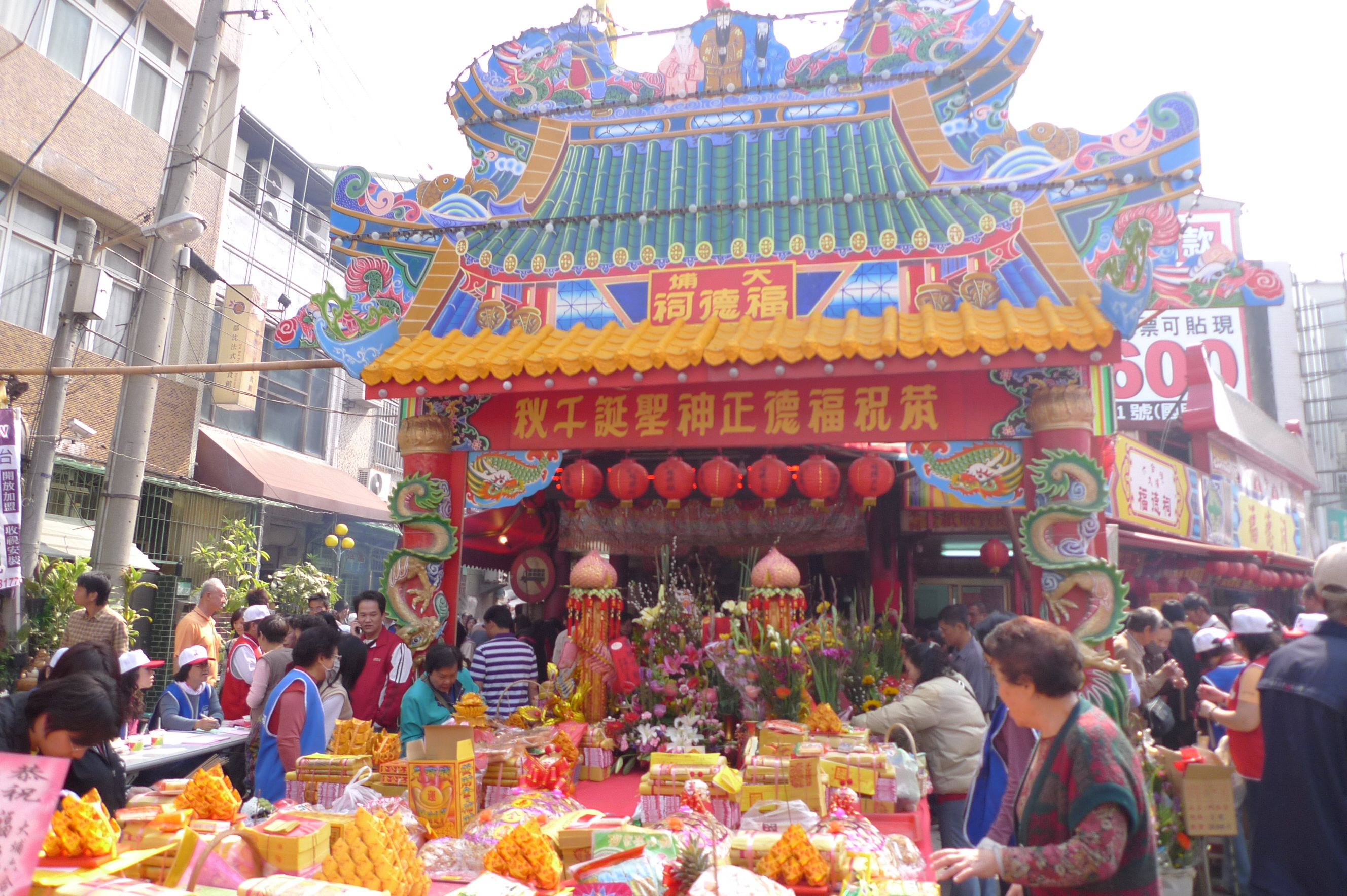 台南開山街上，一年一度土地公生日。 Thóo-tī-kong（土地公）、Tu-ti-bag-gung（土地伯公）is God of Fortunes and neighborhood. People will celebrate this day called Tsò-gê/Tsuè-gê（做牙）.The last time celebrates the Tsò-gê of the year in the lunar calendar is called Bué-gê（尾牙）. The Bué-gê( Weiya / Mi-nga , 尾牙 ) in modern time has another role in Taiwanese culture and society. It is not only a religious ceremony, but also became a social event in many different companies. Employers will treat their employees a traditional banquet on Weiya to show their thankfulness for their employee’s hard working in the past year.